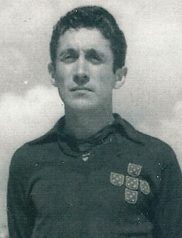 Alfredo Abrantes's Photo